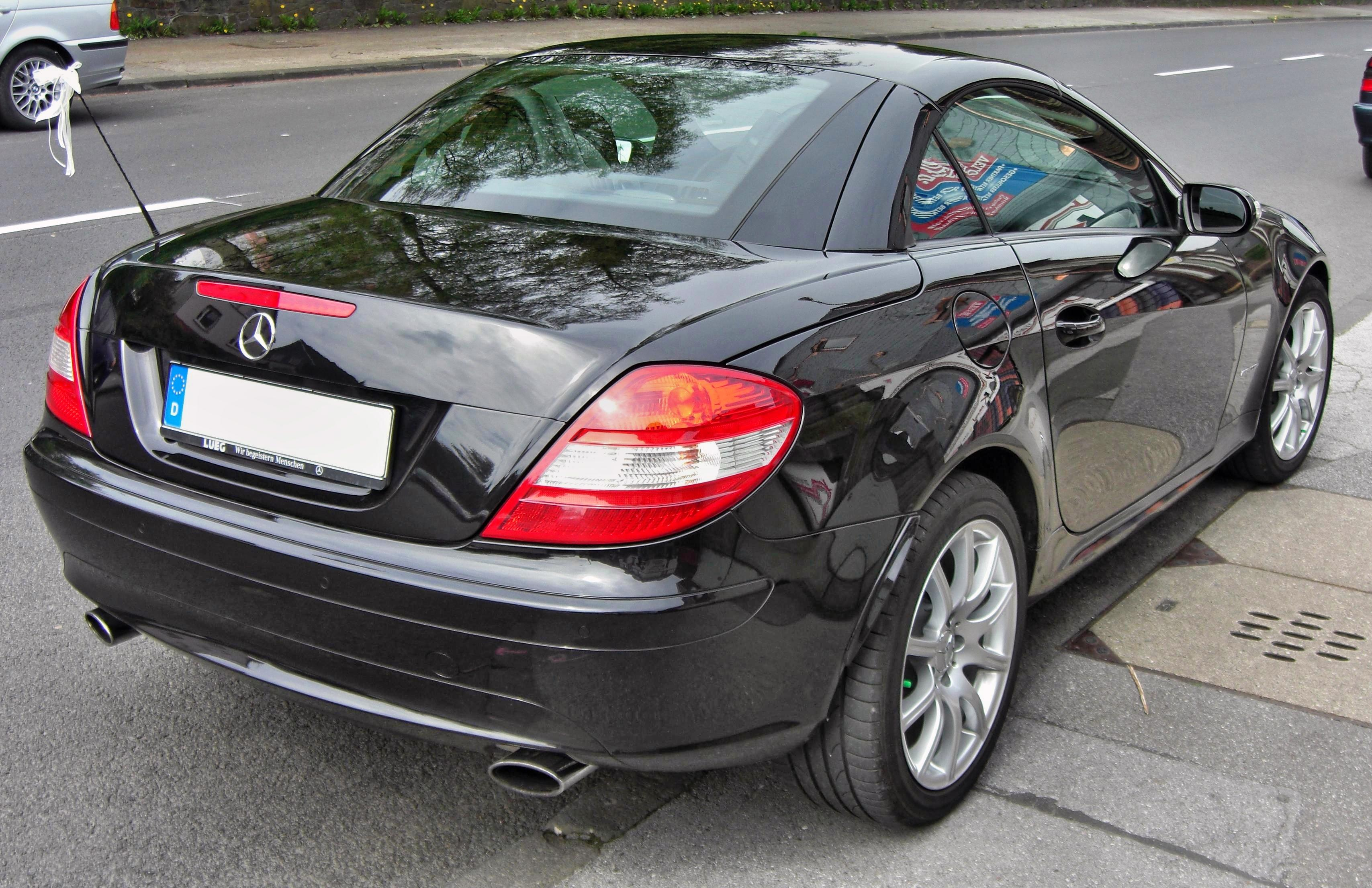 Mercedes SLK 200 Kompressor